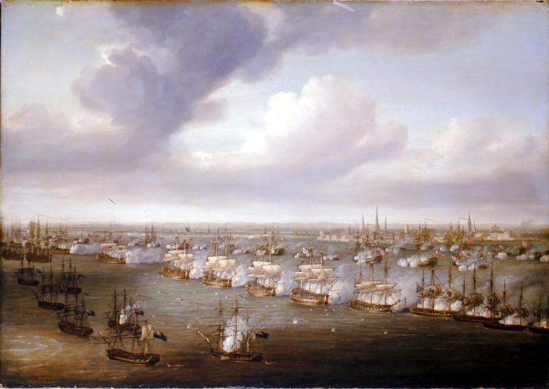 The Battle of Copenhagen, as painted by Nicholas Pocock. British bomb vessels are in the foreground in the lower left; to the right are the British and Danish ships in formations called "line of battle", and the city of Copenhagen in the background.